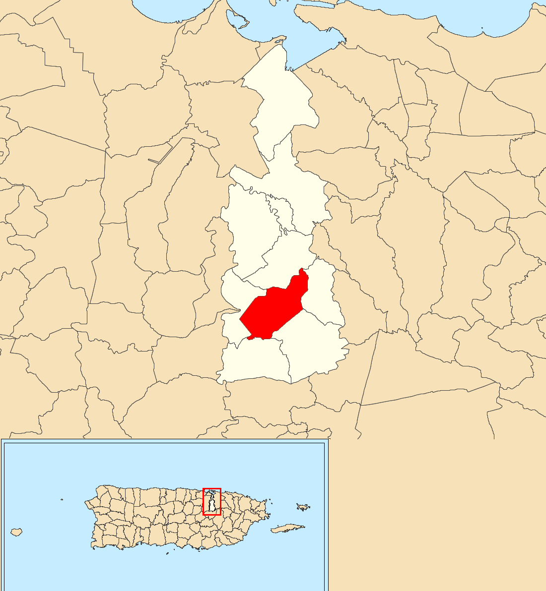 Mamey, Guaynabo, Puerto Rico locator map